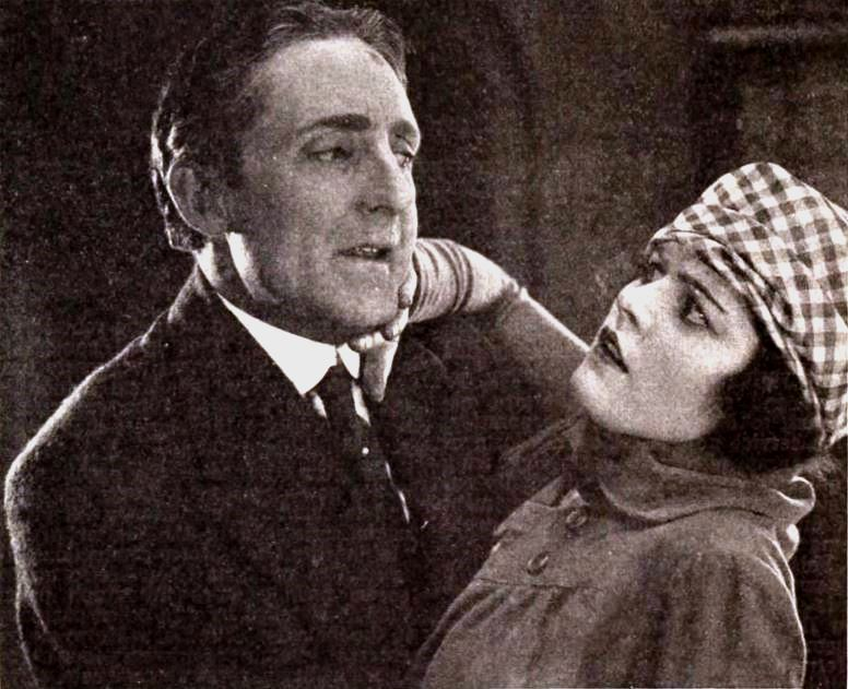 Still from the American film The Shadow of Rosalie Byrnes (1920) with Alfred Hickman and Elaine Hammerstein, on page 81 of the April 24, 1920 Exhibitors Herald.